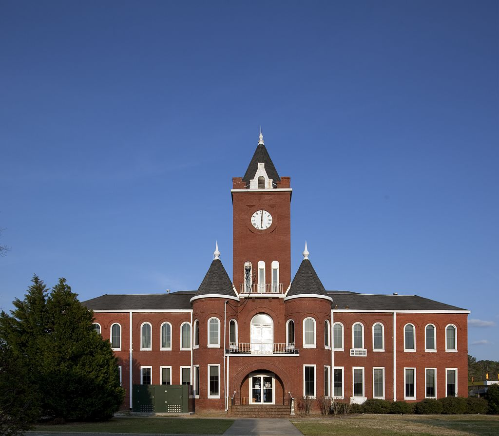 Coffee County Courthouse in Elba, Alabama.)